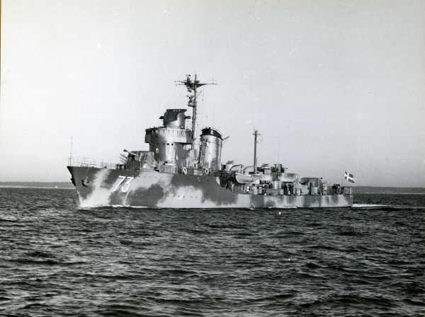 The Swedish frigate HMS Mode, formerly destroyer.